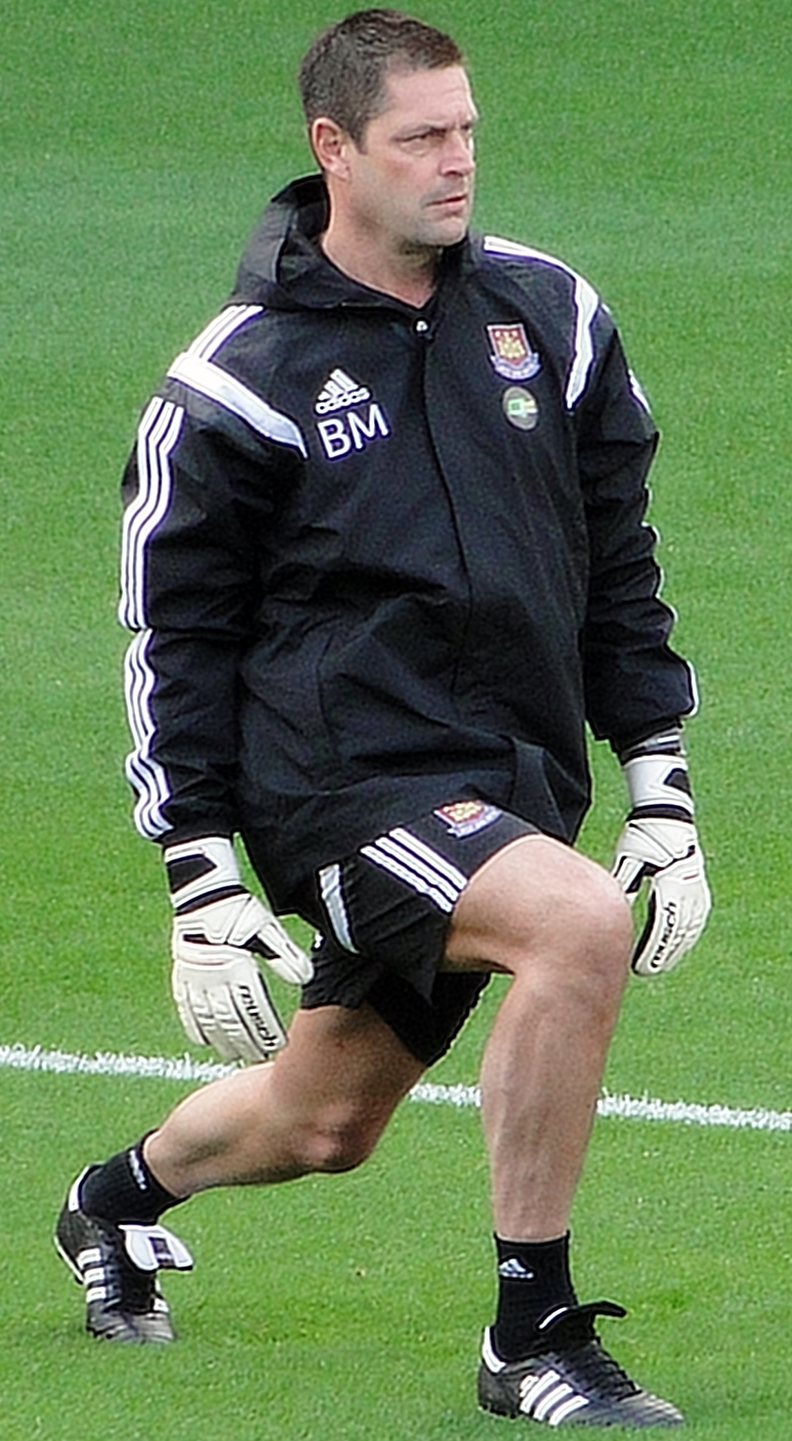 West Ham United goalkeeping coach, Bobby Mimms, before their Premier League win against Manchester City at the Boleyn Ground October 2014